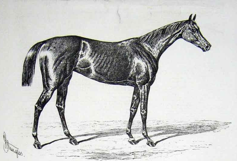 1000 Guineas Stakes winner Pilgrimage